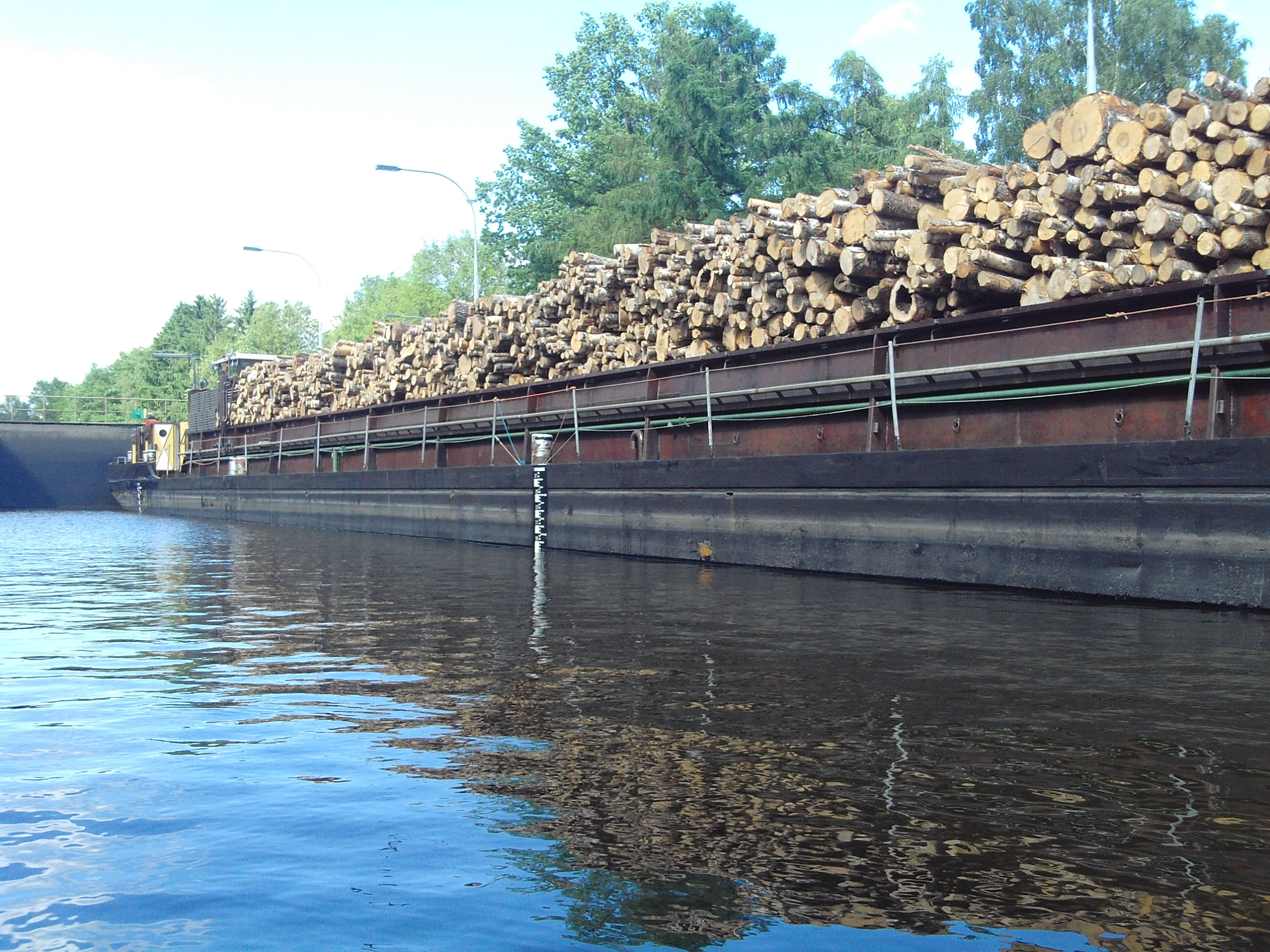 Boat with wood in Elbe-Lubeck Canal